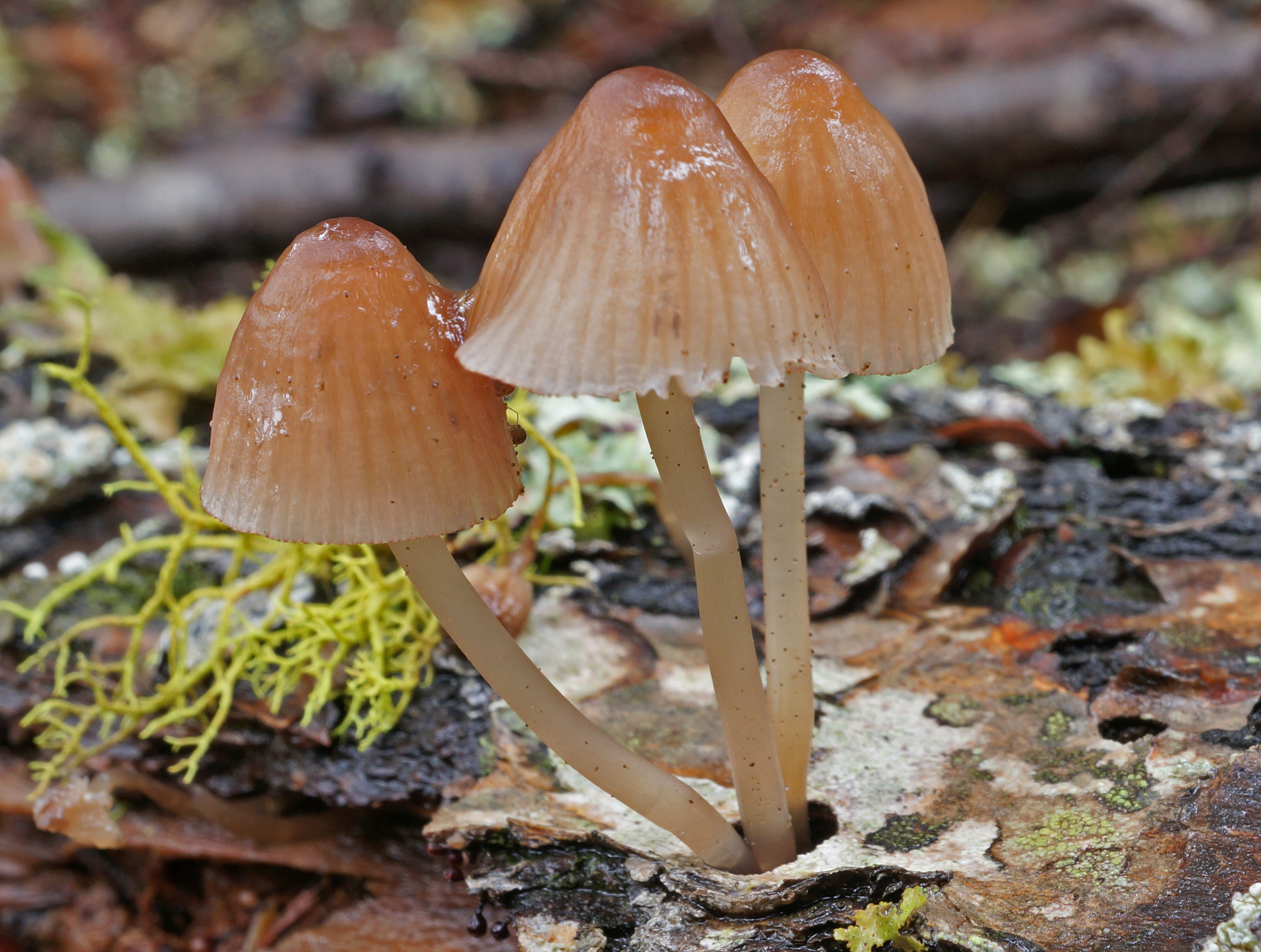 Fruit bodies of the agaric fungus Mycena rubromarginata. Photographed in Husum, Klickitat Co., Washington, USA. "Notes: In a mixed forest, near Indian Cemetery. Stems pliant. Odor of raw potatoes. Spores 9-10 × 7-7.5 microns. Basidia 4-spored, ~30 microns long. Cheilocystidia ~55 microns long. No pleurocystidia."